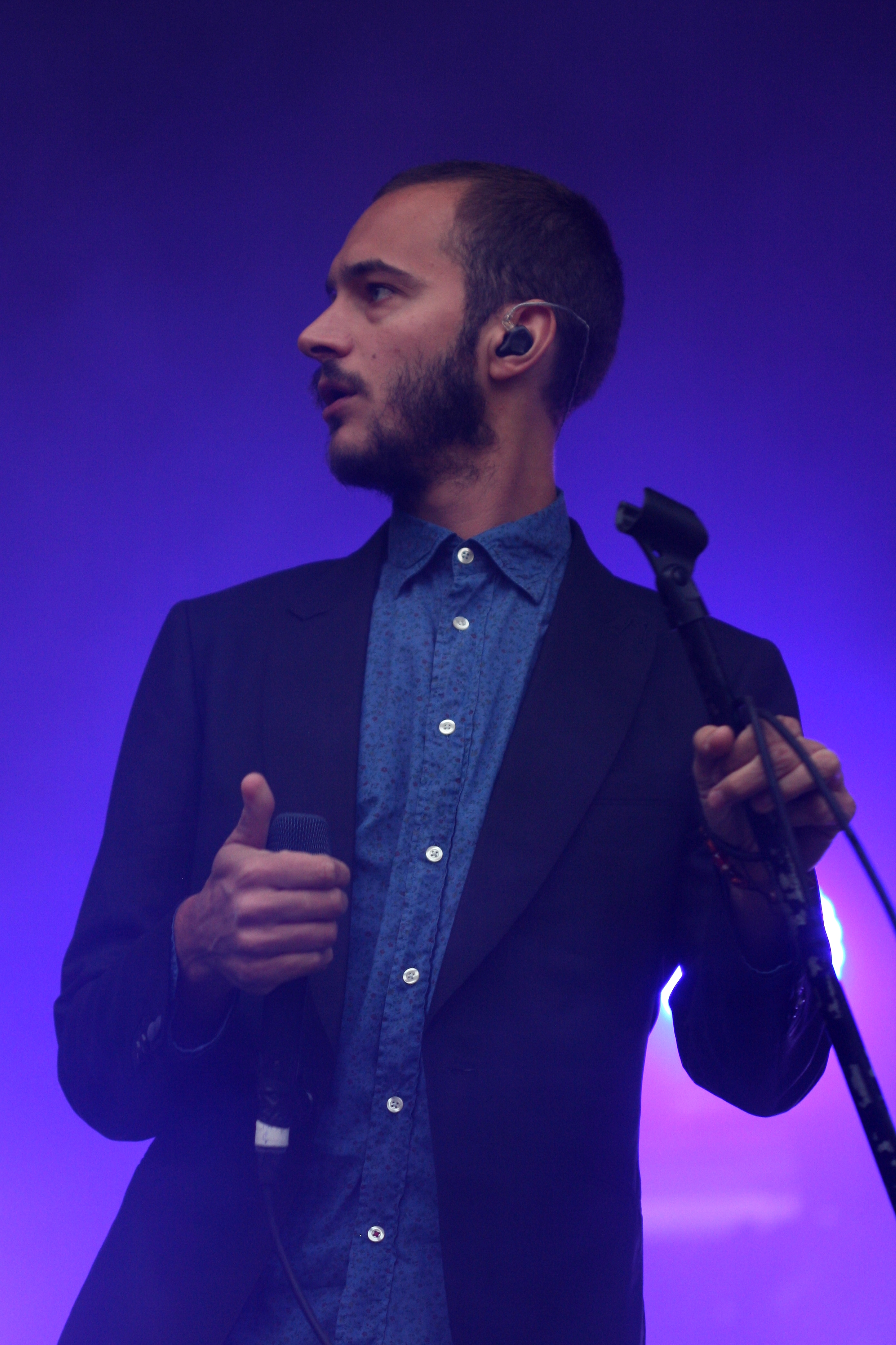 Tom Smith, singer and guitarist of the Editors, on the Main Stage of the Taubertal Festival 2013. Festivalsommer This photo was created with the support of donations to Wikimedia Deutschland in the context of the CPB project "Festival Summer".